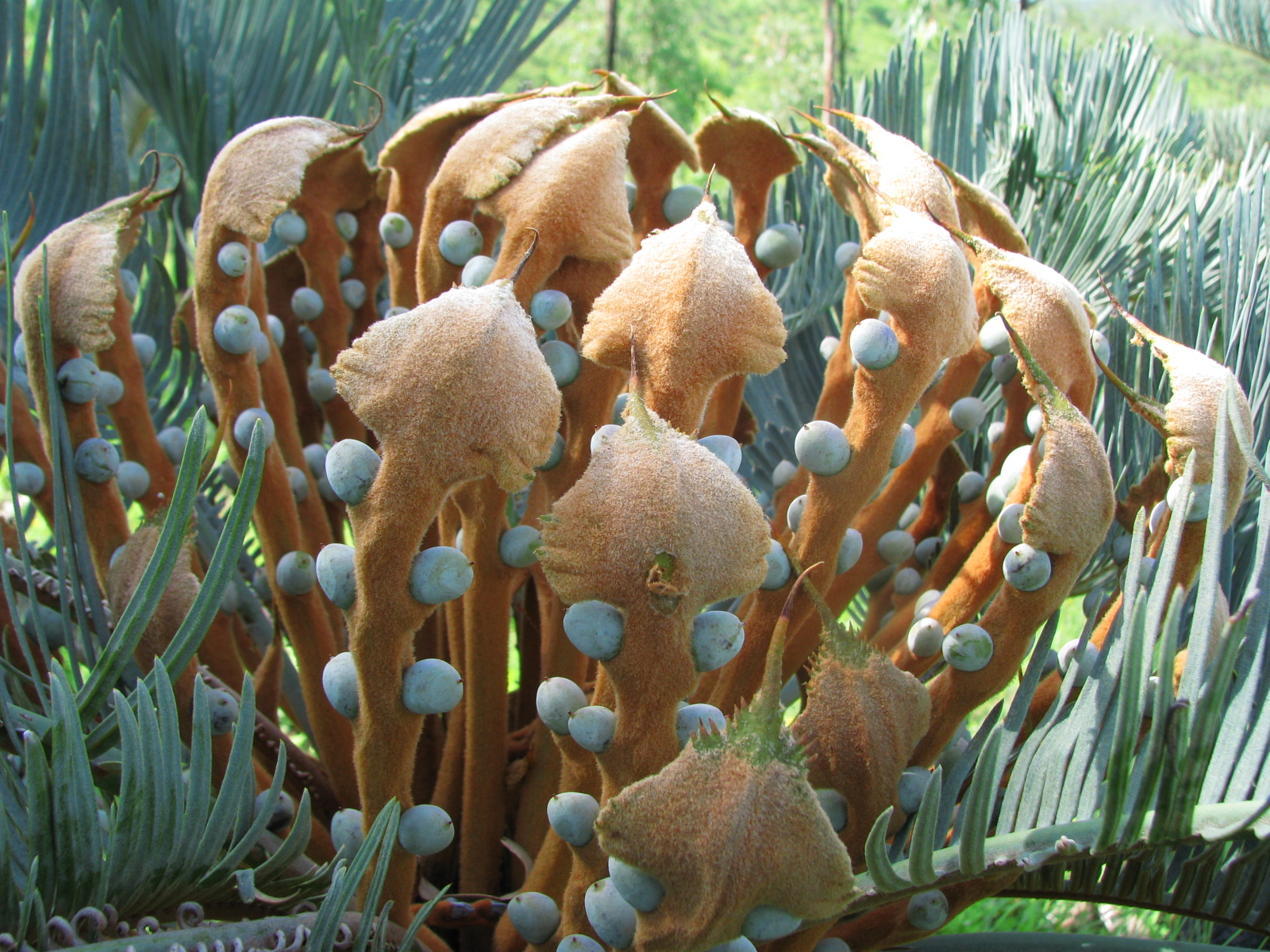 Female cone with immature seeds